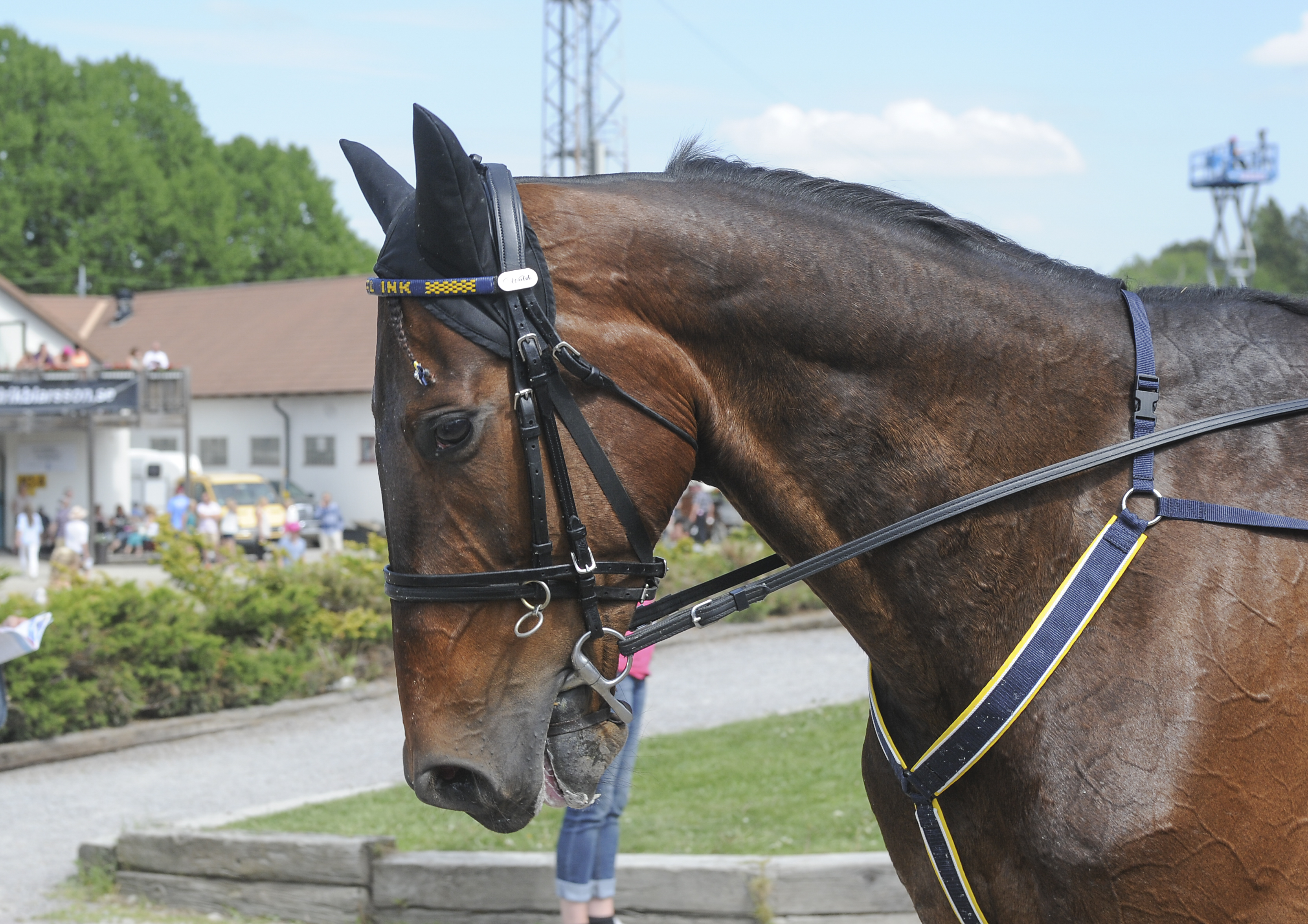 Swedish trotting horse Digital Ink in 2014.